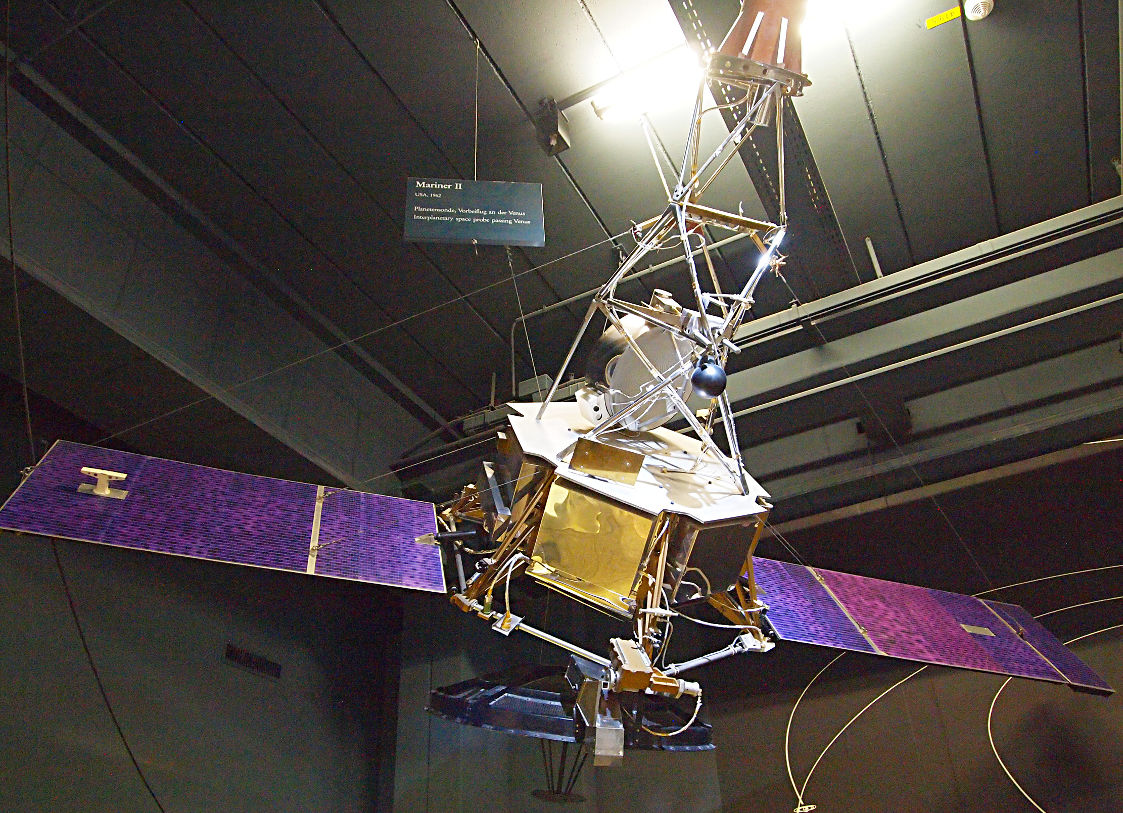 Mariner II satellite in Deutsches Museum, Munich. This photograph was taken with a Olympus E-PL1.